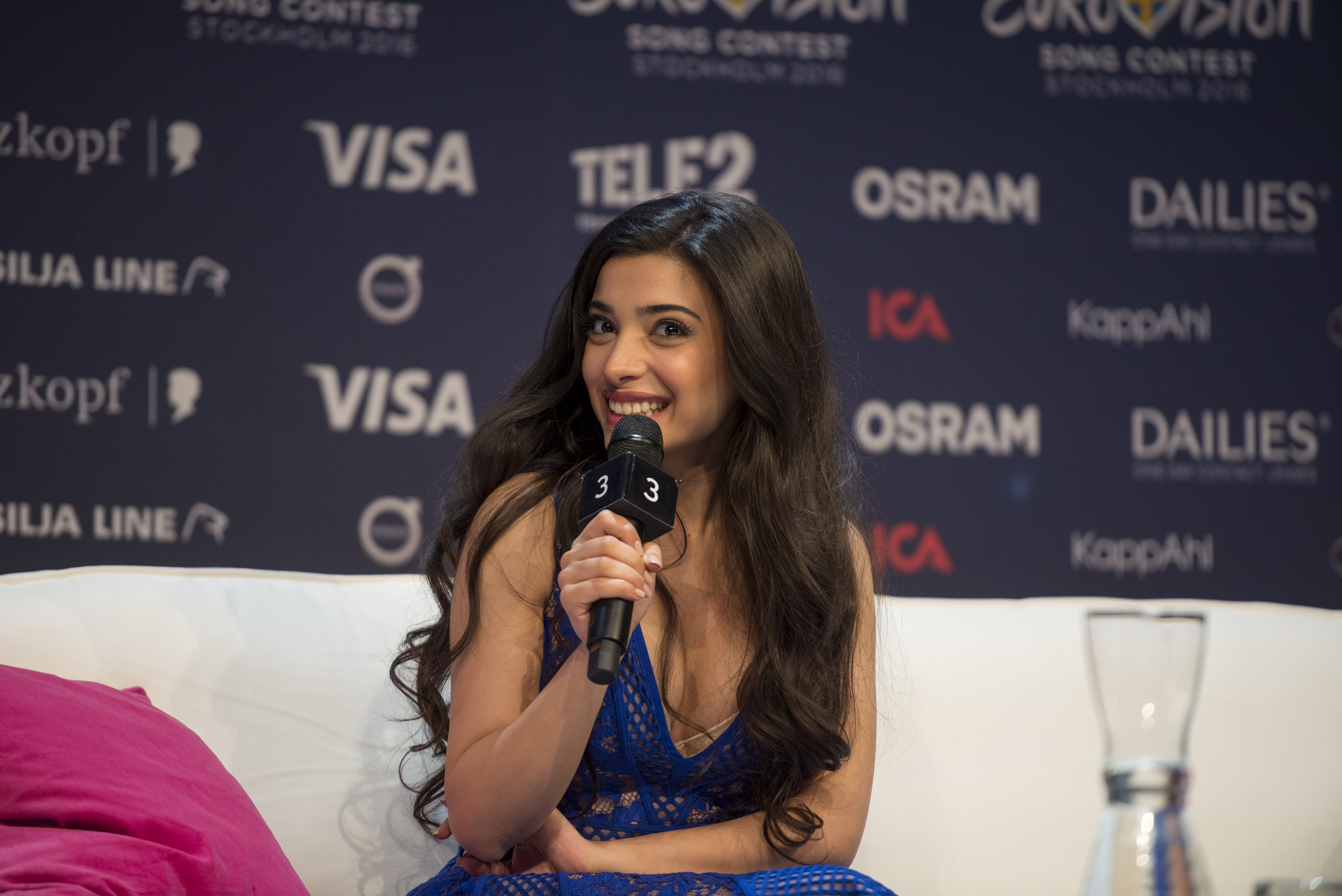 Samra at a Meet & Greet during the Eurovision Song Contest 2016 in Stockholm. (Help translate this text)